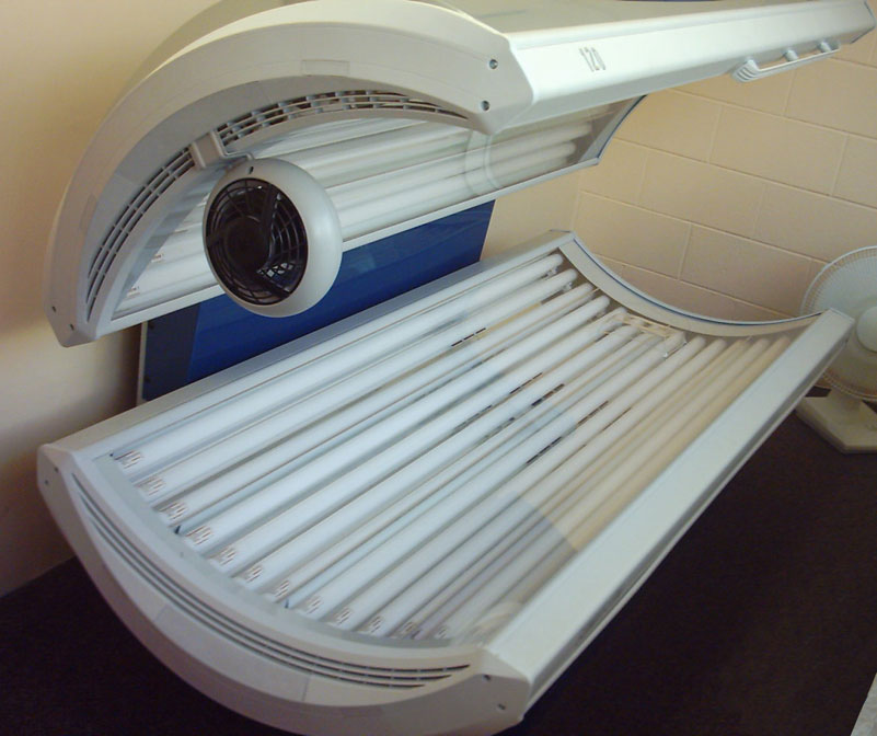 A Sunvision Elite tanning bed switched off.